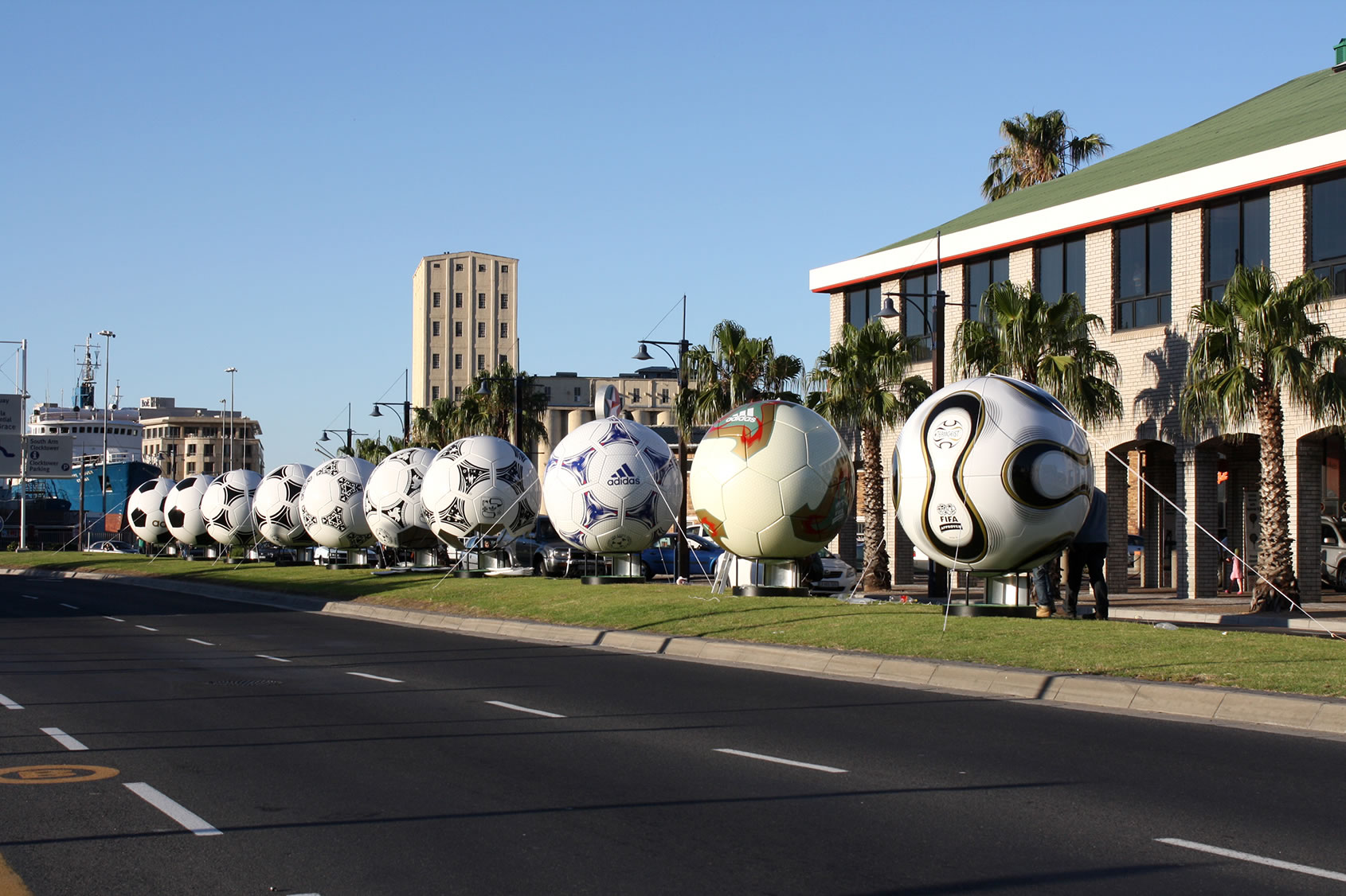 display of giant replica soccer balls at the Dock Road entrance (opposite Caltex) of the Waterfront on Friday evening. Represented are famous balls used in past FIFA World Cup tournaments. They've been put in place by Adidas ahead of Friday's eagerly awaited 2010 FIFA World Cup Final Draw at the Cape Town International Convention Centre (CTICC) just a few hundred metres away. Adidas is set to unveil the official ball for the 2010 tournament on Friday.